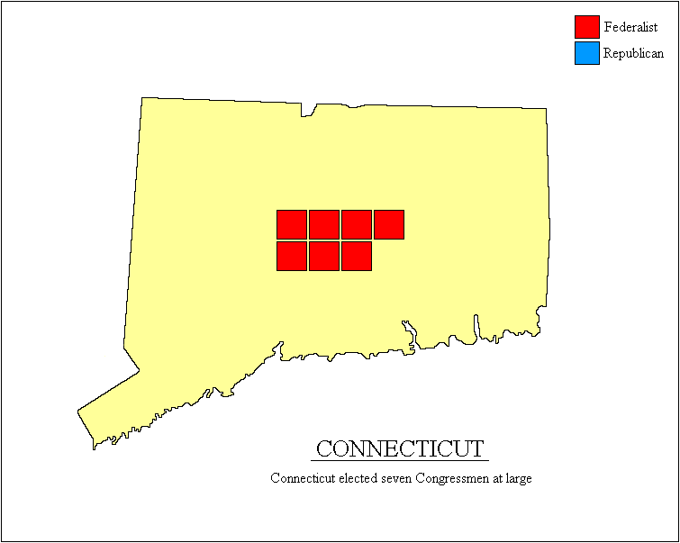 Congressional district map of Connecticut for the 5th Congress, 1796